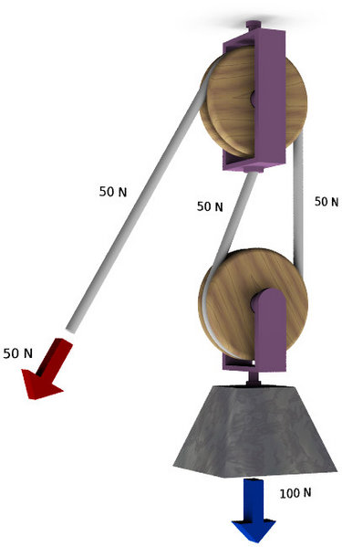 A gun tackle has a single pulley in both the fixed and moving blocks with 2 rope parts dividing the load of 100N. The mechanical advantage is 2, requiring a force of only 50N to lift the load.